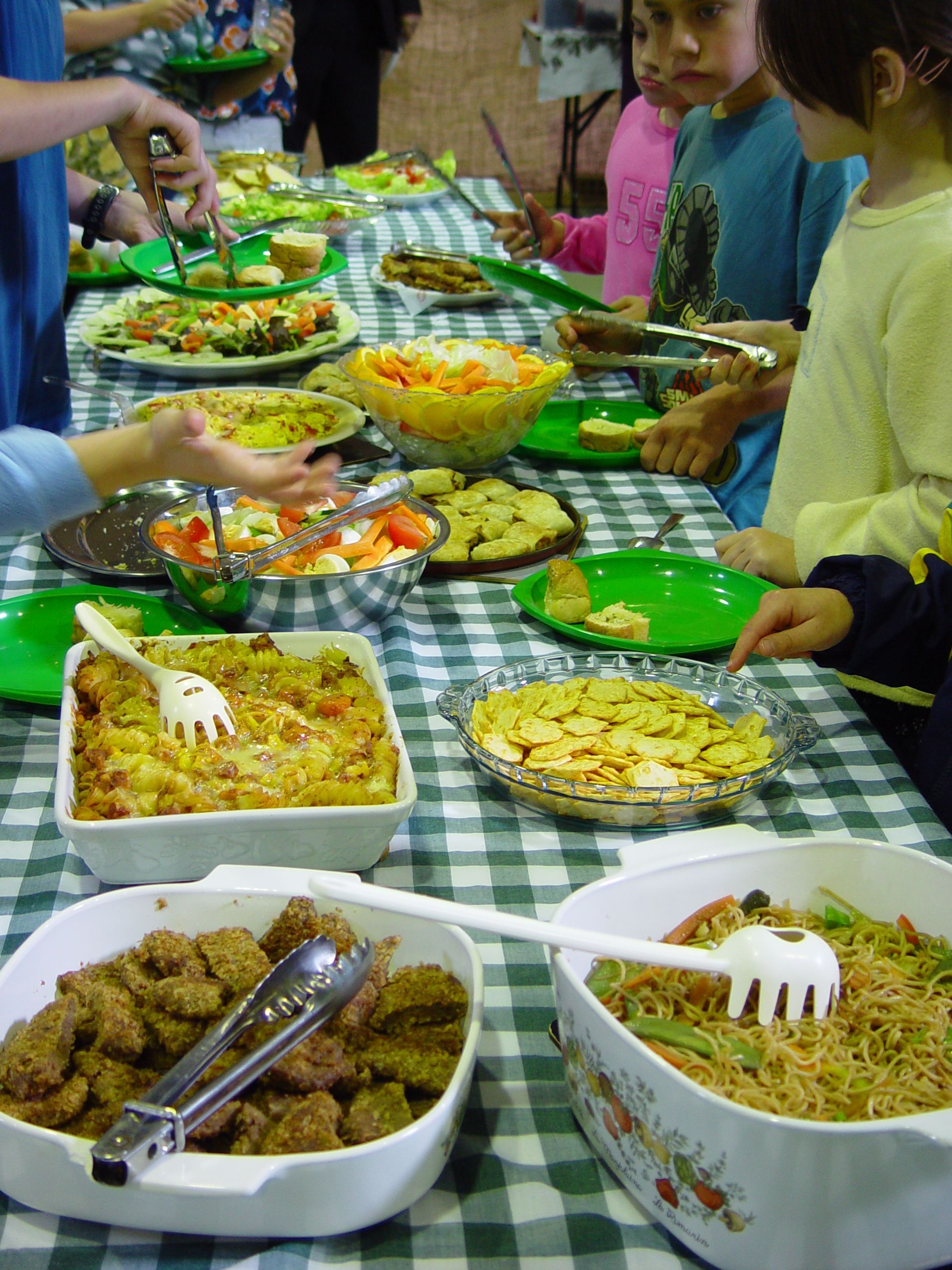 Image title: Vegetarian buffet Image from Public domain images website